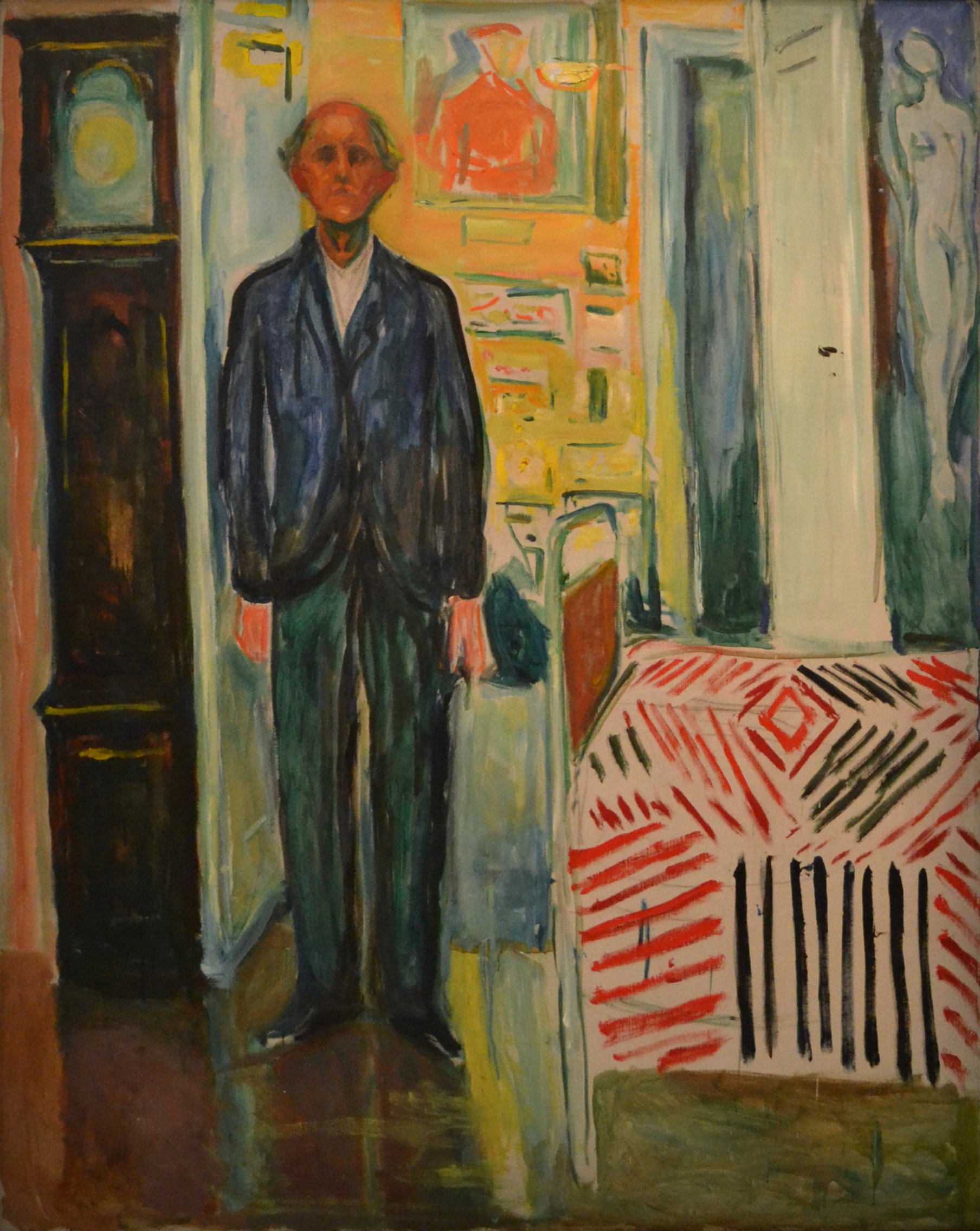 Edvard Munch, Self-Portrait. Between the Clock and the Bed, 1940-1943. Oil on canvas. Munch-museet, Oslo.